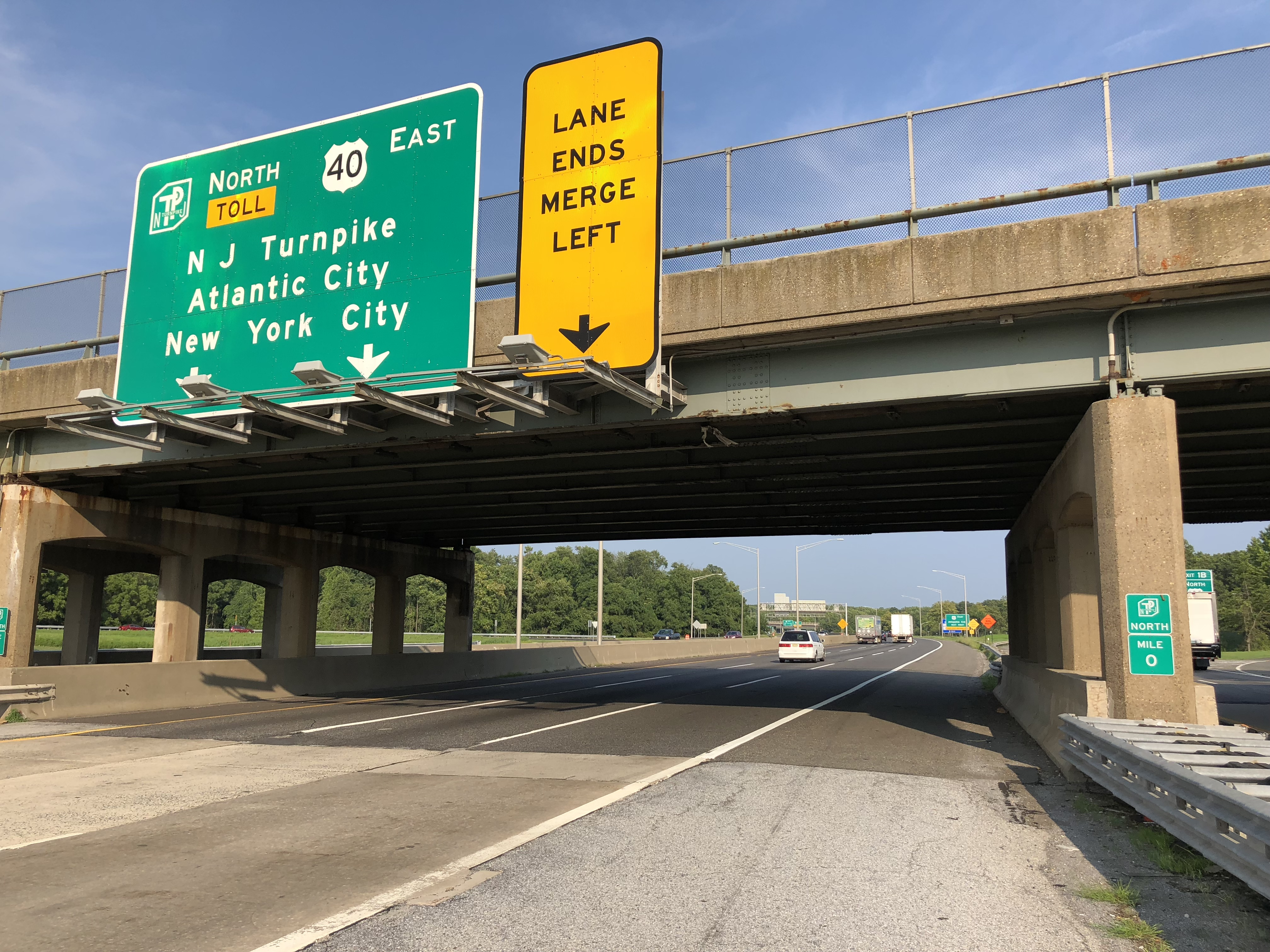 View east along U.S. Route 40 and north along New Jersey State Route 700 (New Jersey Turnpike) just northeast of the exit for Interstate 295 in Pennsville Township, Salem County, New Jersey